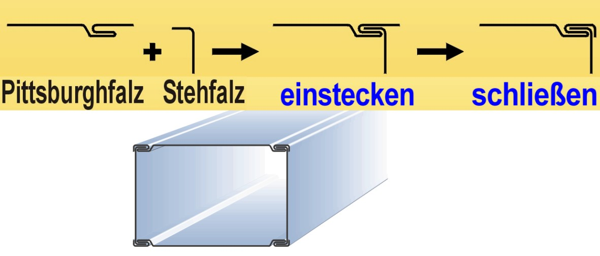 Pittsburgh joint